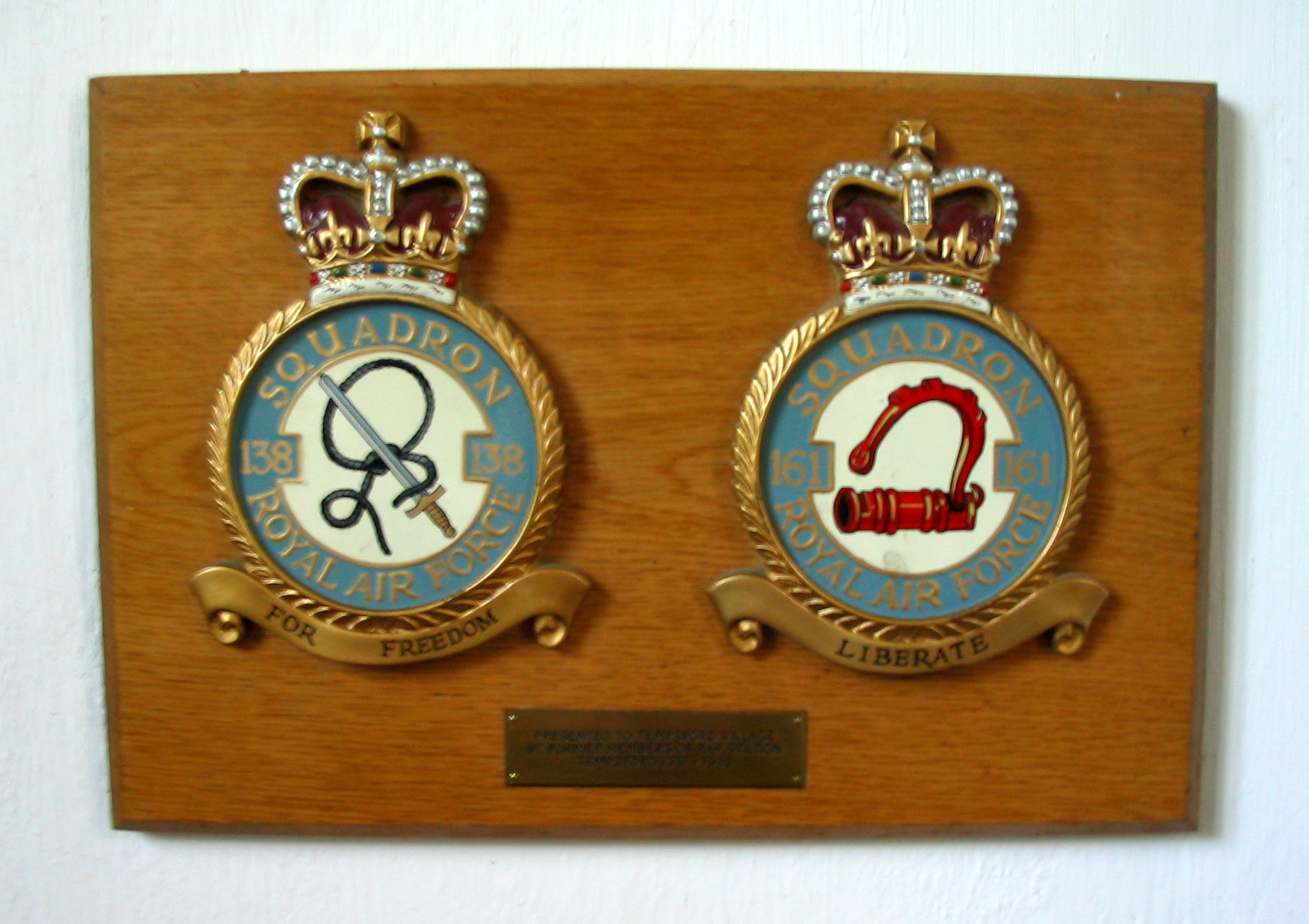 Badges of 138 and 161 Squadrons on a plaque in St Peter's parish church, Tempsford, Bedfordshire, England